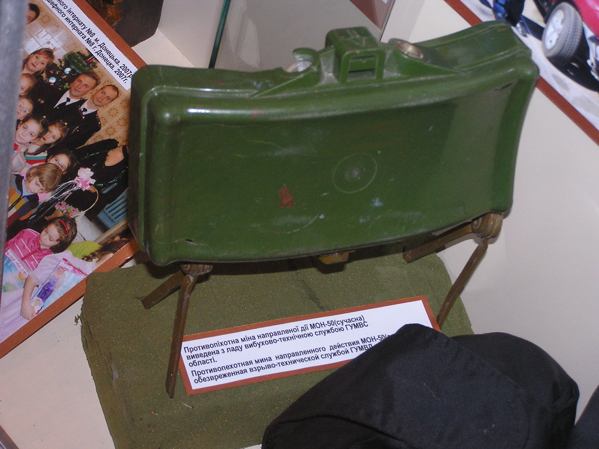 Museum of the History of Donetsk militsiya